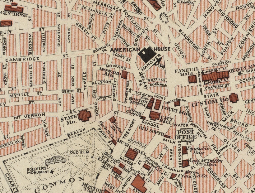 Detail of Walker's 1883 map of Boston, showing Scollay Square and vicinity.